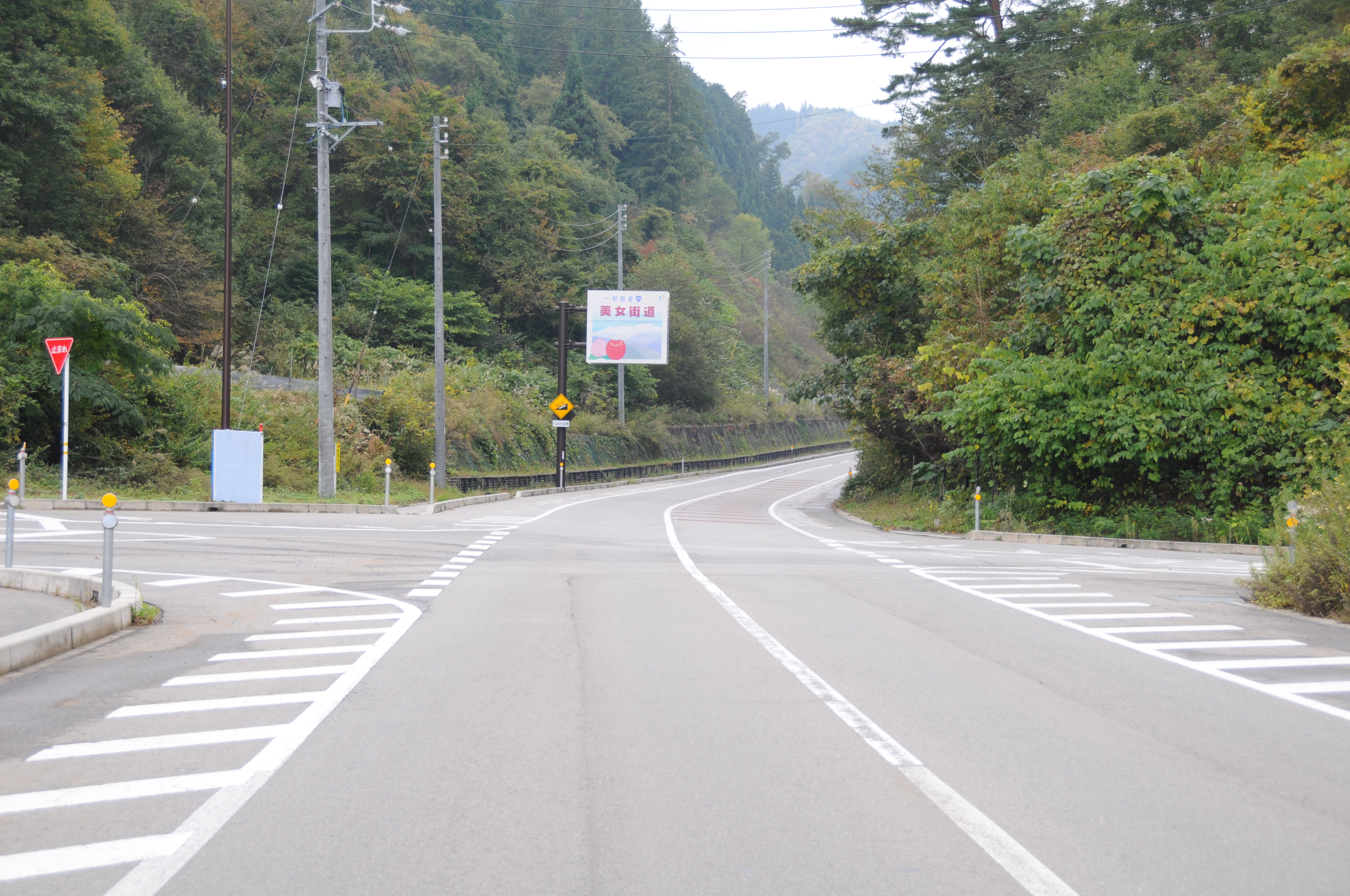 The Intersection Where R-361 Intersects South Takayama Public Fields' Road